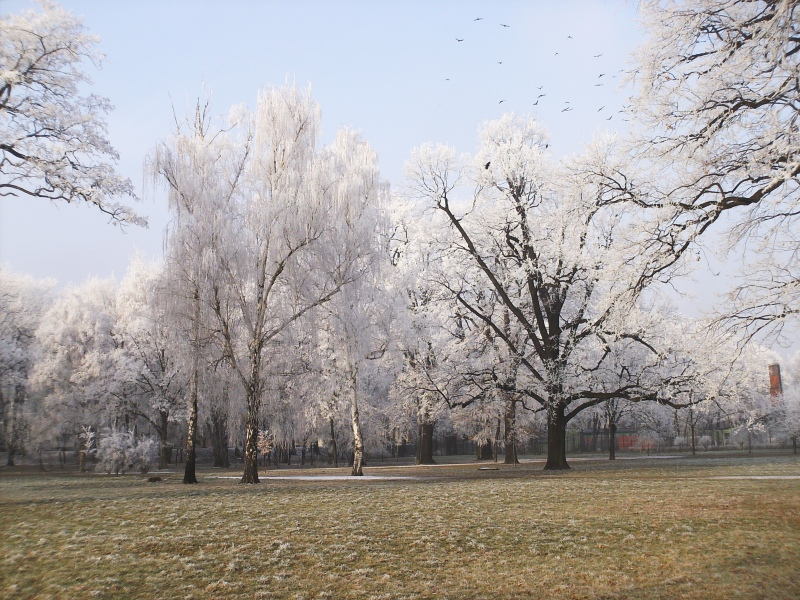 City Park in Legnica